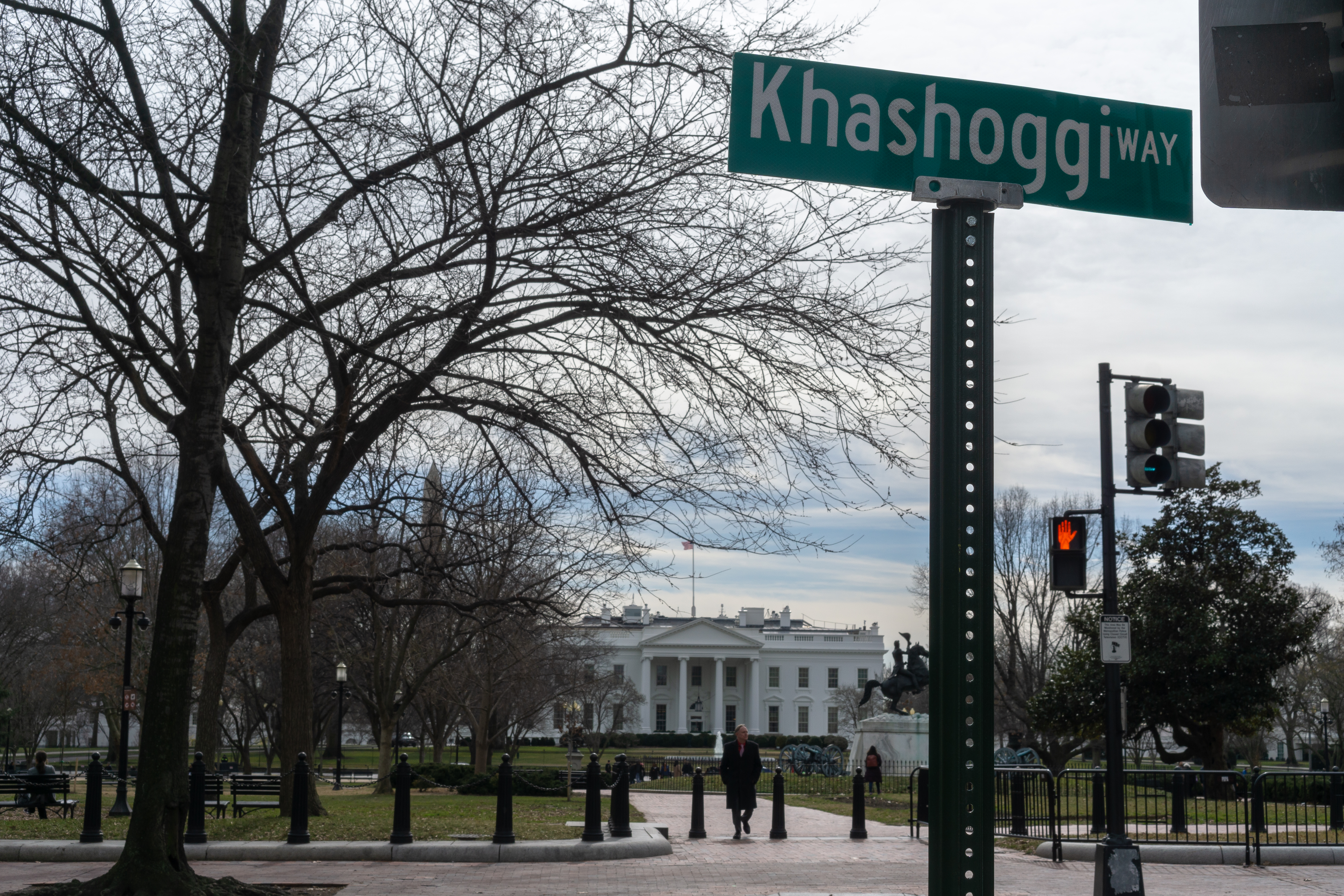 Street sign that says "Khashoggi Way" in front of the White House in Washington, D.C.